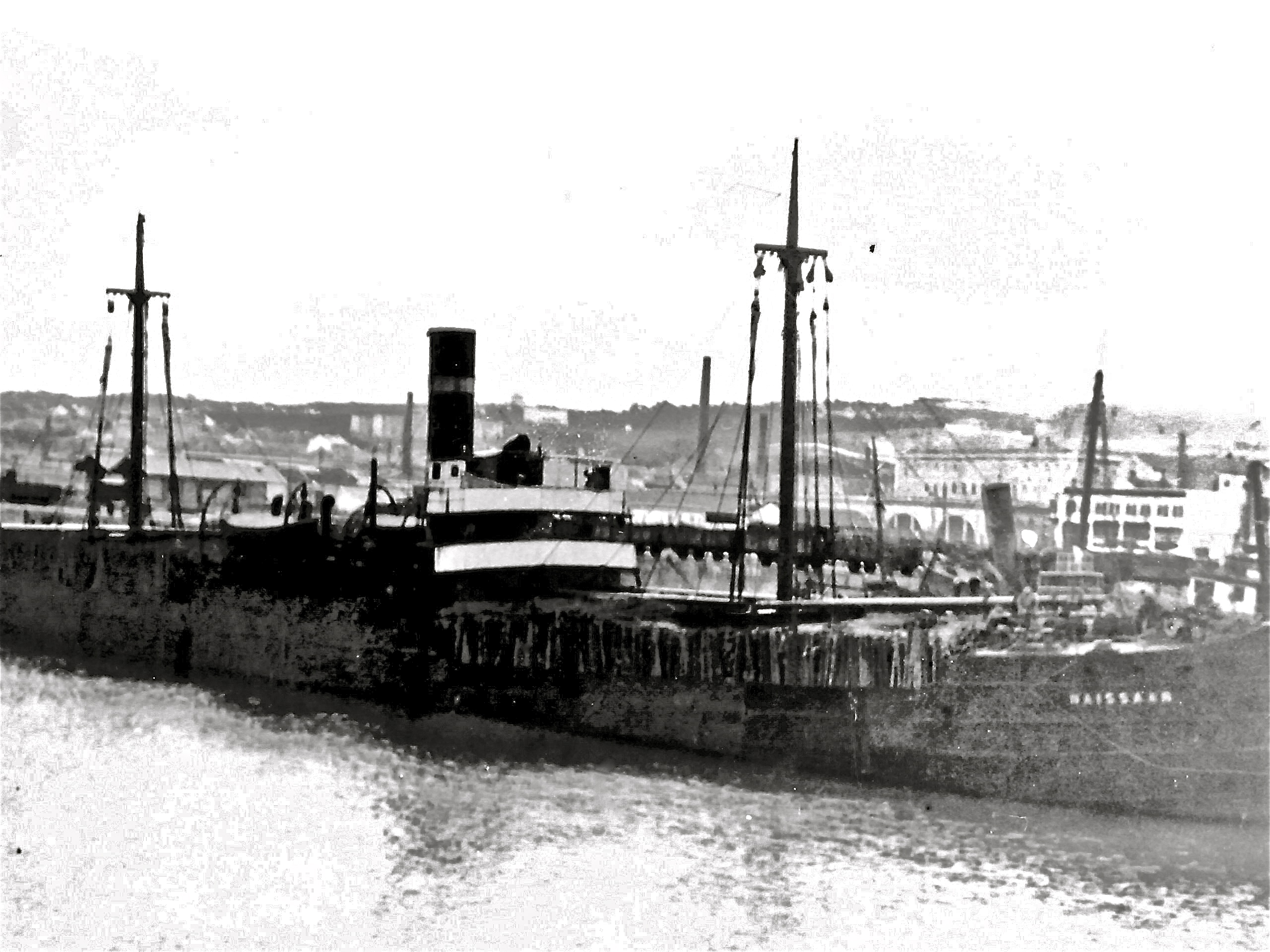 Photo of SS Naissaar.